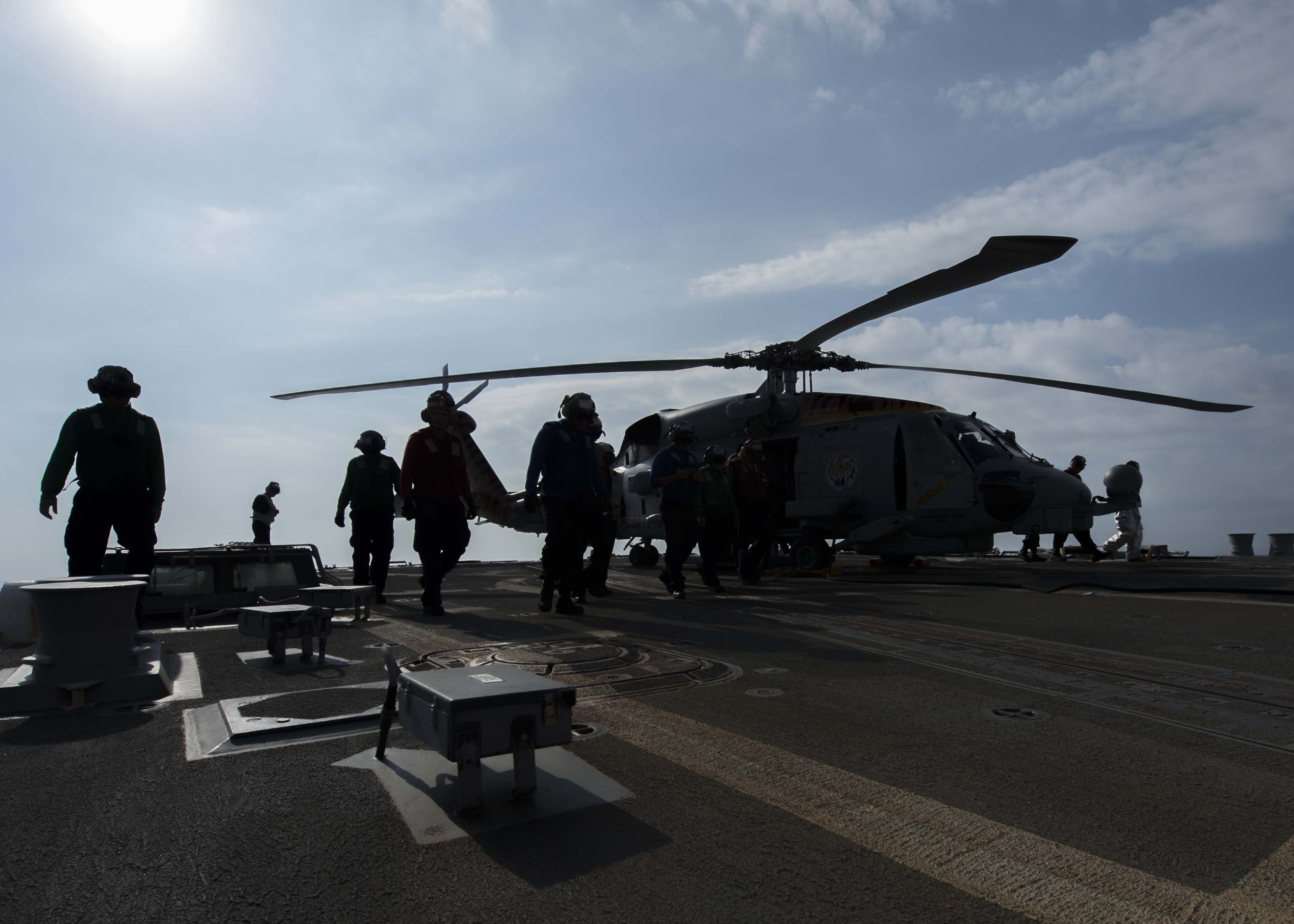 Sailors perform a foreign-object-debris (FOD) walk down on the flight deck of the guided-missile destroyer USS Dewey (DDG 105). Dewey is deployed in the U.S. 5th Fleet area of operations supporting Operation Inherent Resolve, strike operations in Iraq and Syria as directed, maritime security operations, and theater security cooperation efforts in the region. (U.S. Navy photo by Mass Communication Specialist 3rd Class James Vazquez/Released)